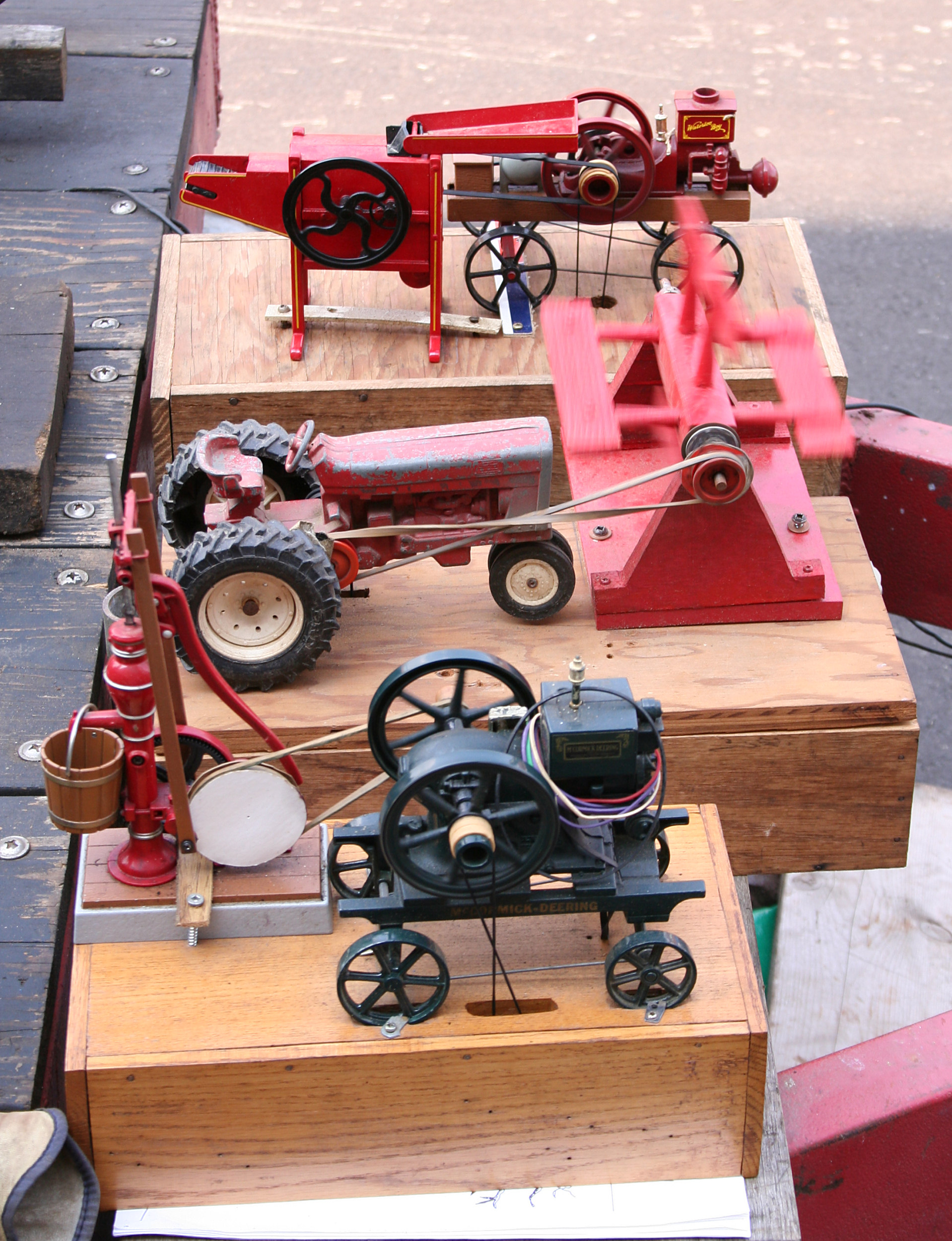 Models of early gasoline-powered internal combustion engines being used to run farm equipment. Photo shot by Derek Jensen (Tysto), 2005-September-10